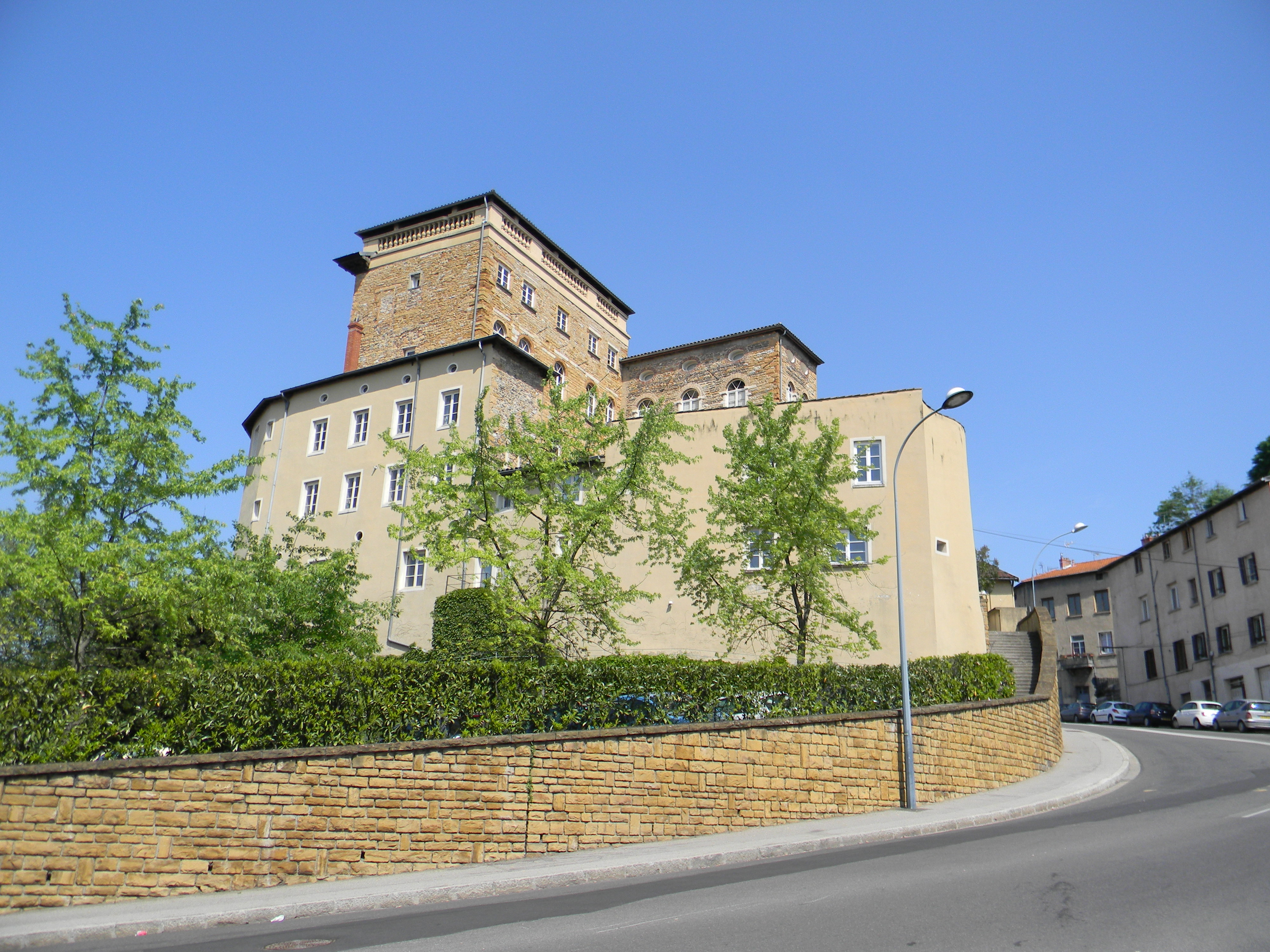 The Cuire castle